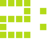 Logo da' Dois (RTP2) entre 2004 e 2007